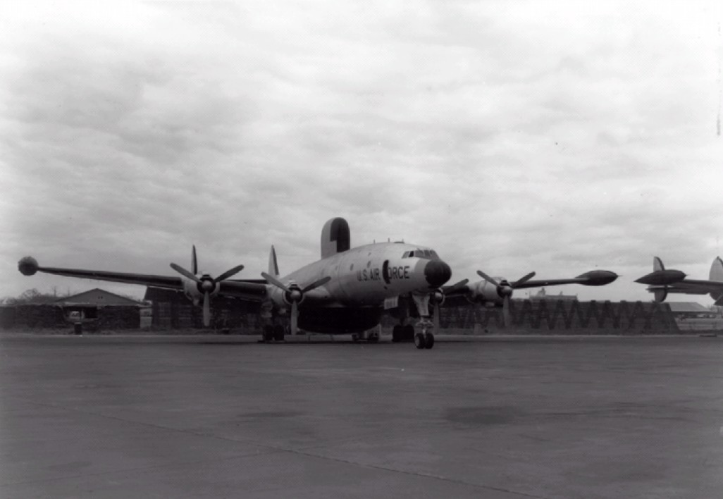 U.S. Air Force Lockheed EC-121D Warning Star aircraft of the 552nd Airborne Early Warning & Control Wing at Korat Royal Thai Air Force Base, Thailand, during the Vietnam War.